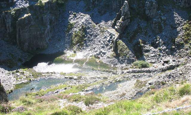 Chwarel Fron Quarry. This photograph taken from the road shows the Chwarel Fron Pit. This was worked from the mid-19th century until the 1950s. In its hey-day the quarry employed up to 100 men. The quarry is now owned by Hogan Brothers, who work the tips to provide hard core for road building.